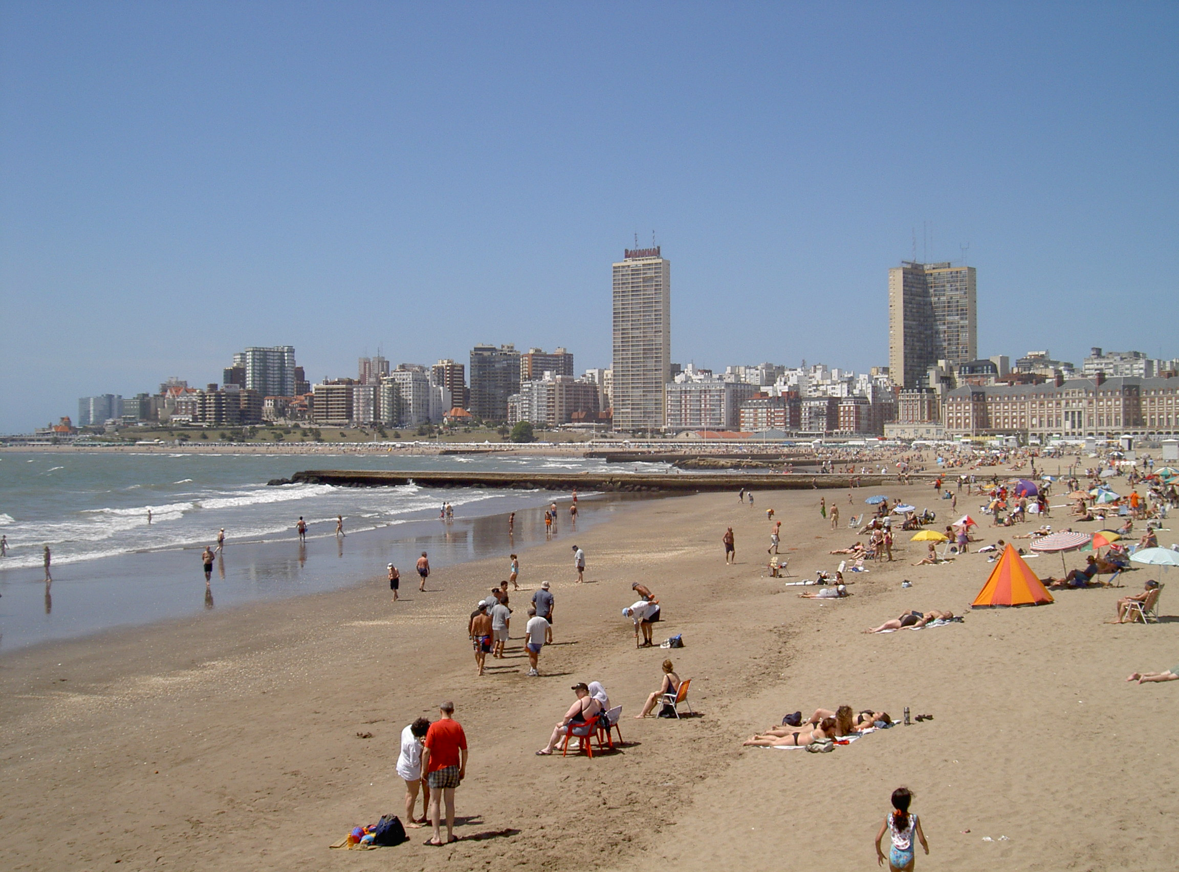 The beach in Mar del Plata, Atlantic coast of Argentina